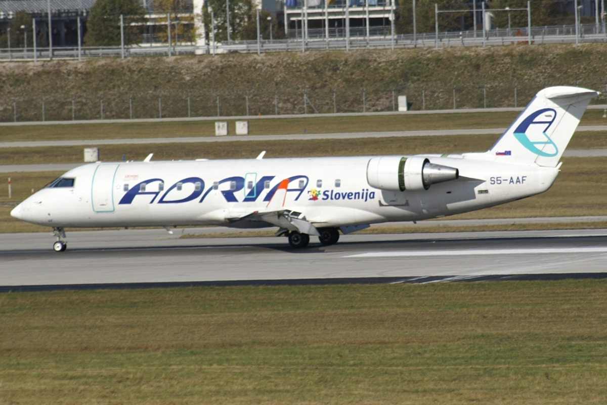 Adria Airways CRJ 200 S5-AAF at Munich Airport